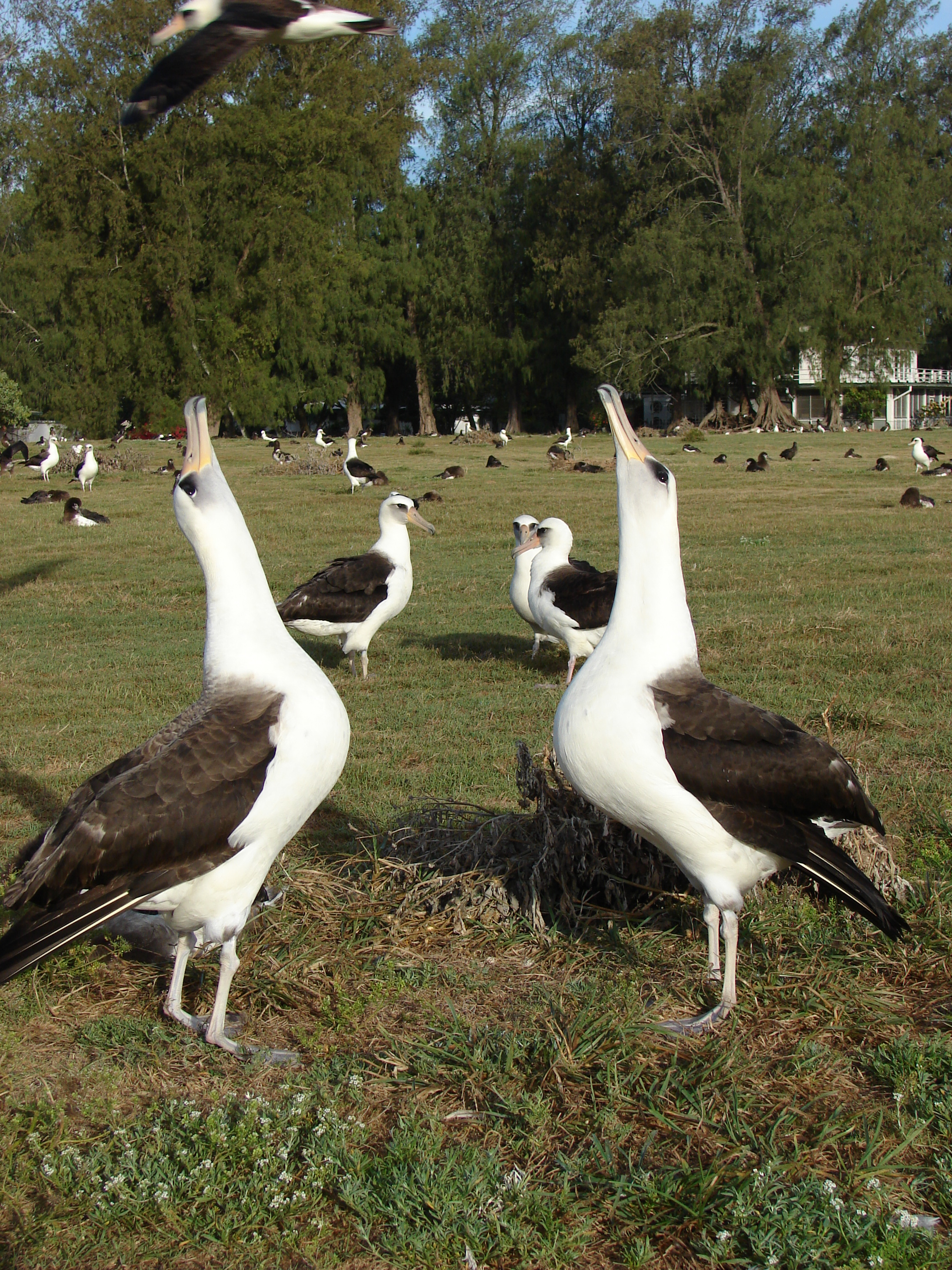 Casuarina equisetifolia (habit and Laysan albatross dancing). Location: Midway Atoll, Old Gooneyville Lodge site Sand Island